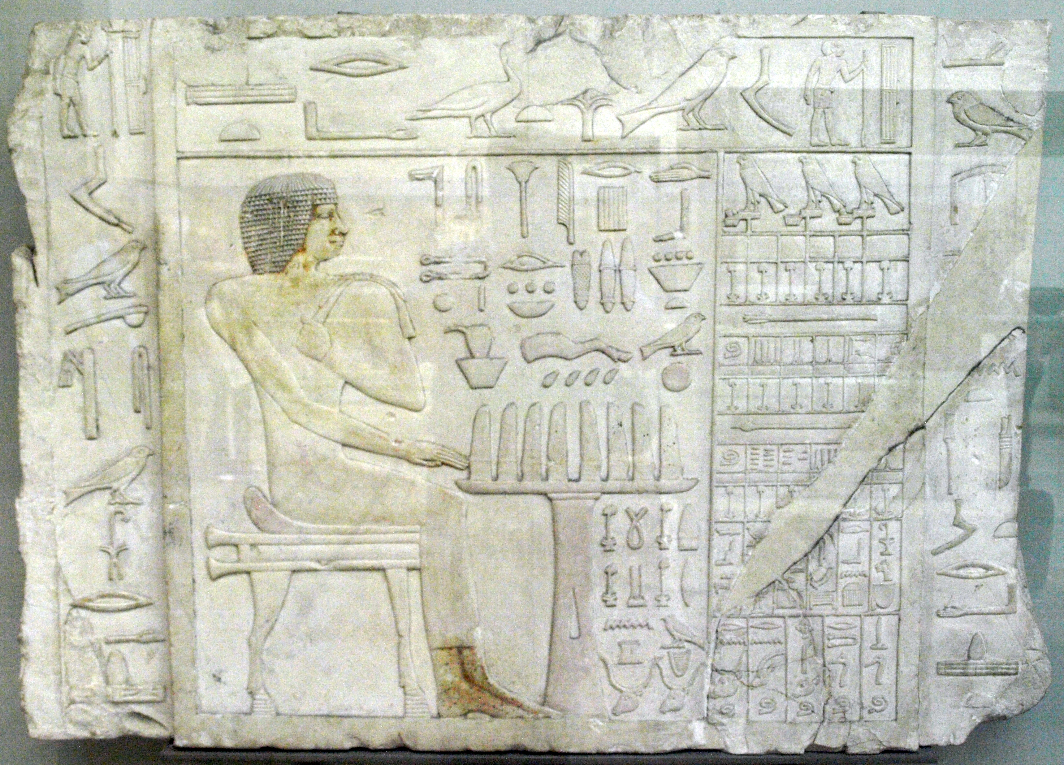 Relief of Rahotep seated before offerings, found in the offering-chapel of a brick mastaba in Meidum, made of limestone, circa 2600 BC (4th dynasty). EA 1242.This fragmented relief has some archaic forms of hieroglyphs; and Rahotep's Slab stela of the Old Kingdom shouldn't be compared to work of a Pharaoh Rahotep of the 17th Dynasty.